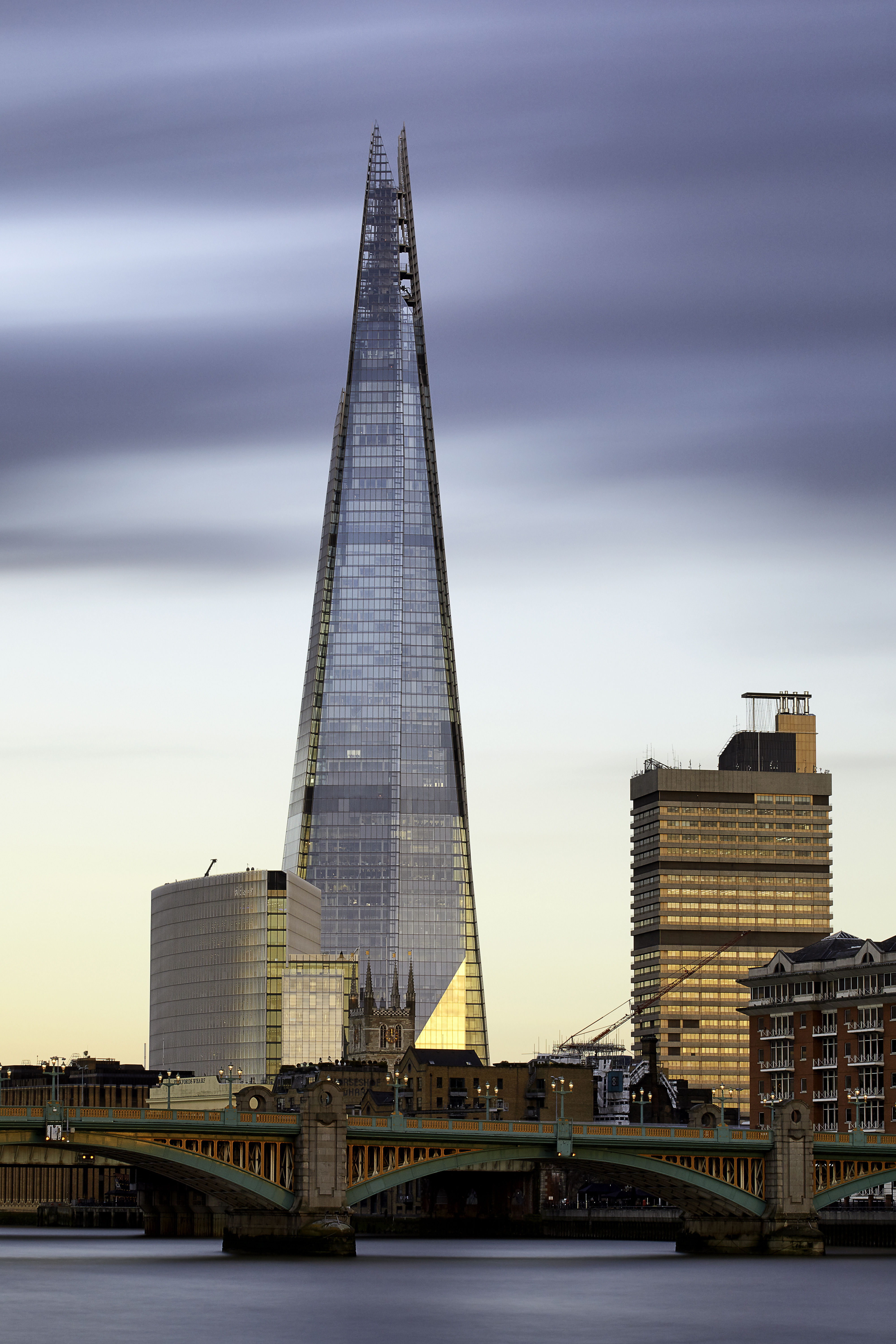 The Shard, London, at sunset, with Southwark Bridge in the foreground.